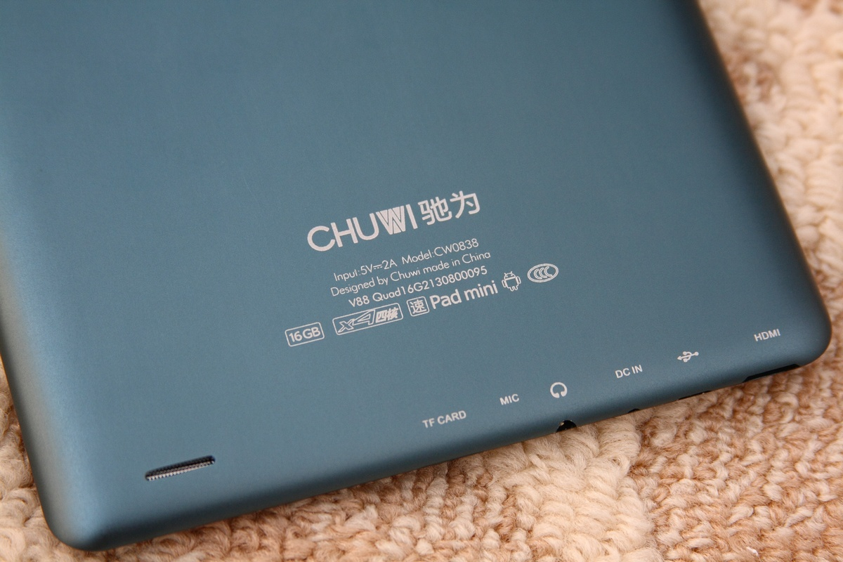 Chuwi Pad mini - a Chinese-made tablet with 7.9 inch screen. Having the same form factor as iPad mini, it apparently mimics its model name.